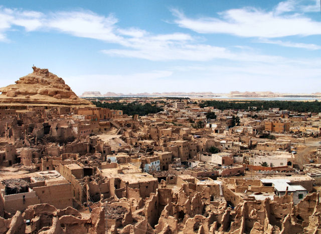 Panoramic view of Siwa Oasis in northwest Egypt, overlooking the ancient fortress made of mud-bricks, with a view of the lake on the horizon. (Photo: 2006, circa solar eclipse of March 29, en:2006). The file is in JPEG format to auto-resize for fast display (full size is 640x466). Source URL (Italian website): The containing webpage identified the image as a personal photograph, but as displayed in low resolution, and had no copyright restrictions.